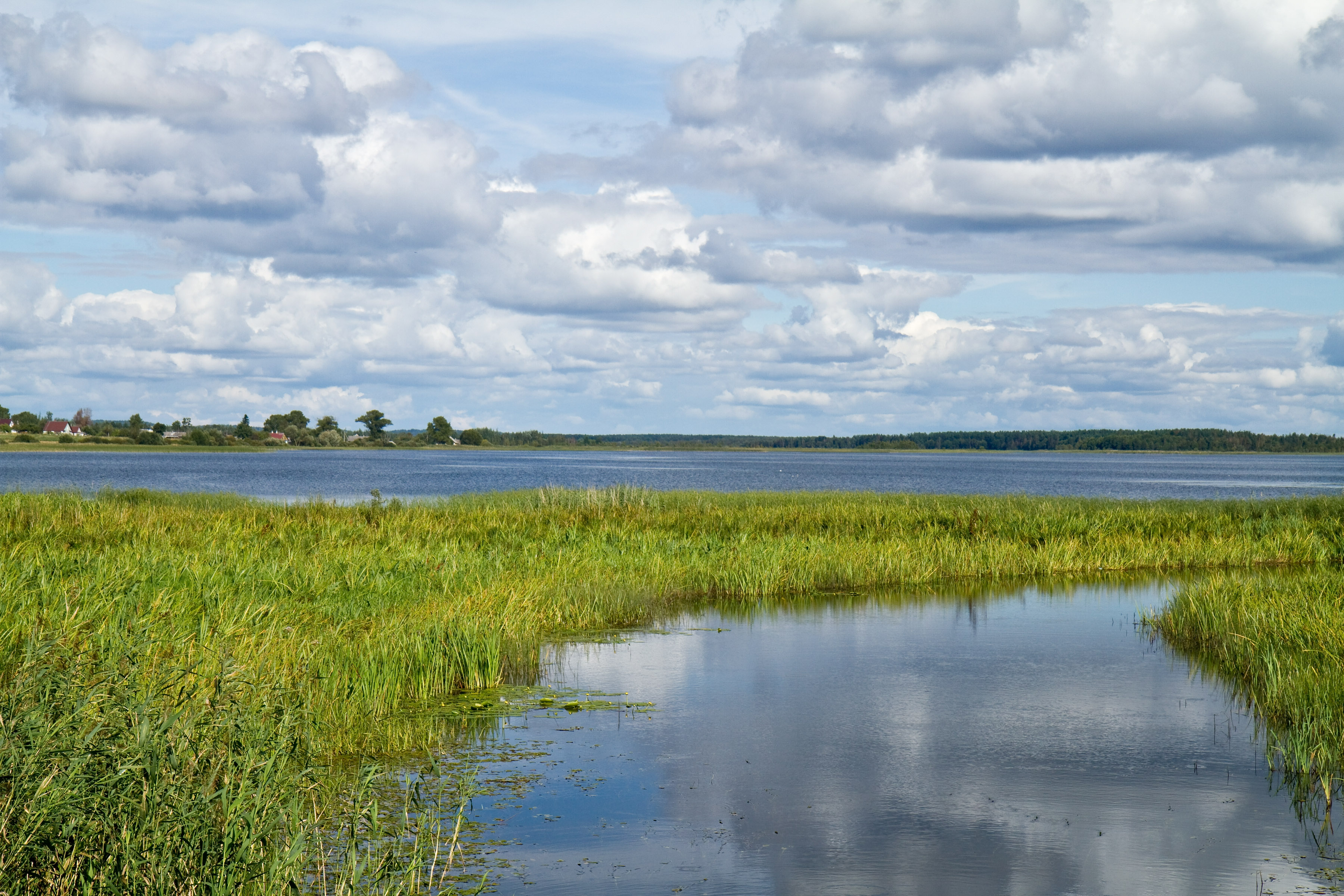 Crabroŭka river (foreground) and Nabista lake. Miorski district, Viciebsk province, Belarus.